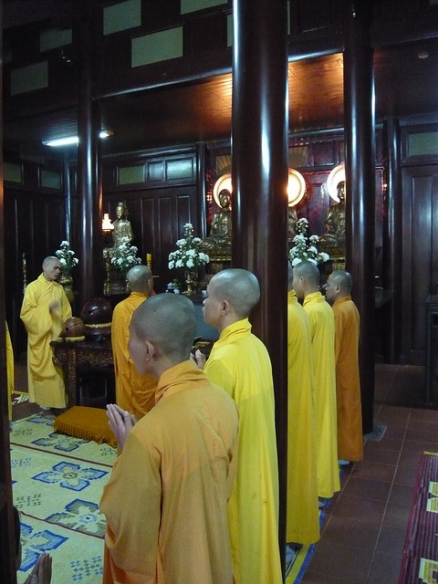 Vietnamese Buddhist monks performing a service in a pagoda in Hue, Vietnam.